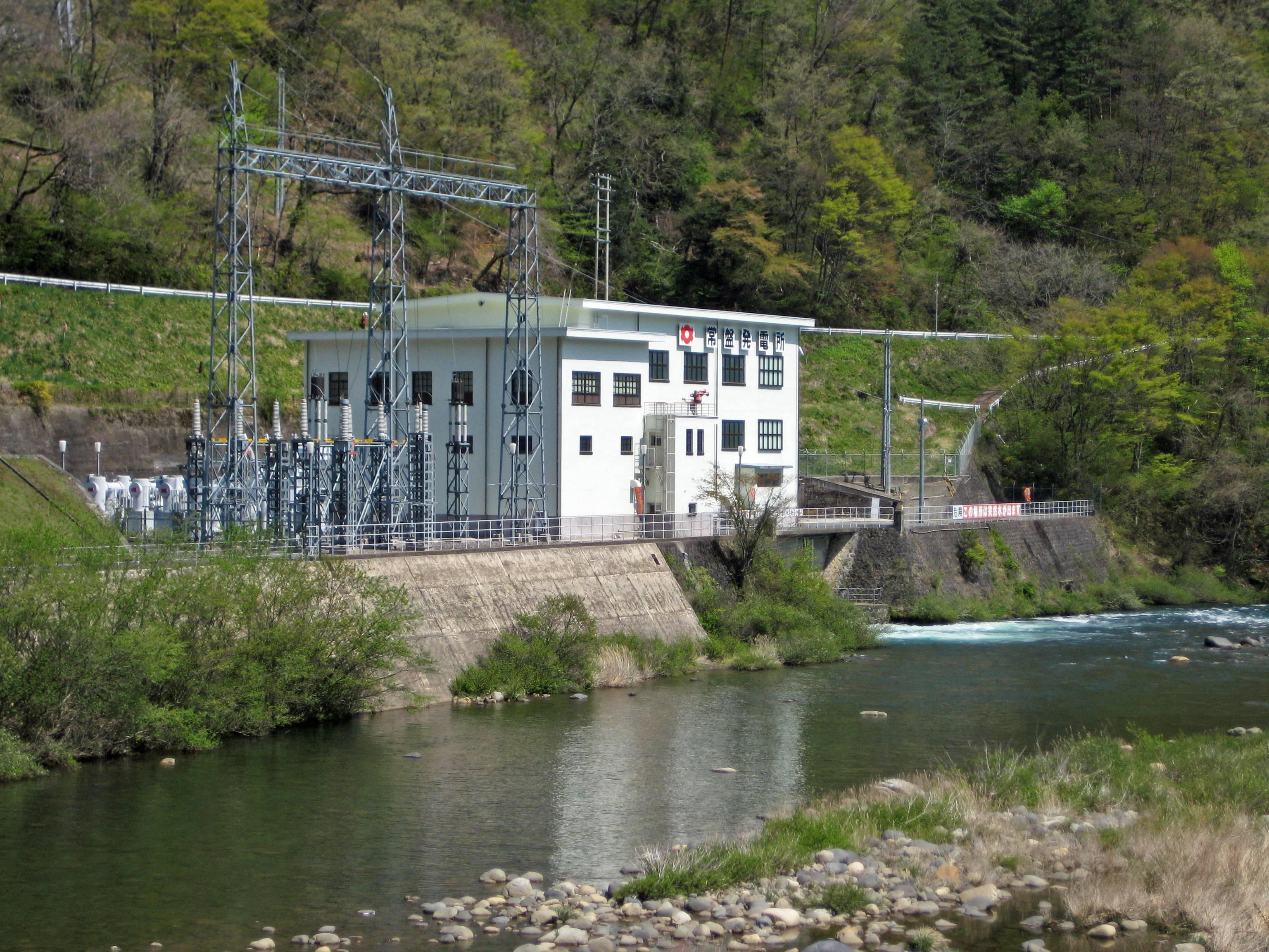 Tokiwa power station.